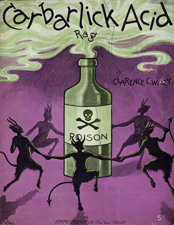 "Car-Barlick-Acid Rag" Clarence C. Wiley. Detroit, MI & NY NY: Jerome H. Remick & Co., 1905 sheet music cover. Note: In the era carbolic acid was used (diluted) as a disinfectant; very dangerous undiluted. Bunk Johnson recalled this tune as part of the inspiration for Kid Ory's number "Ory's Creole Trombone".